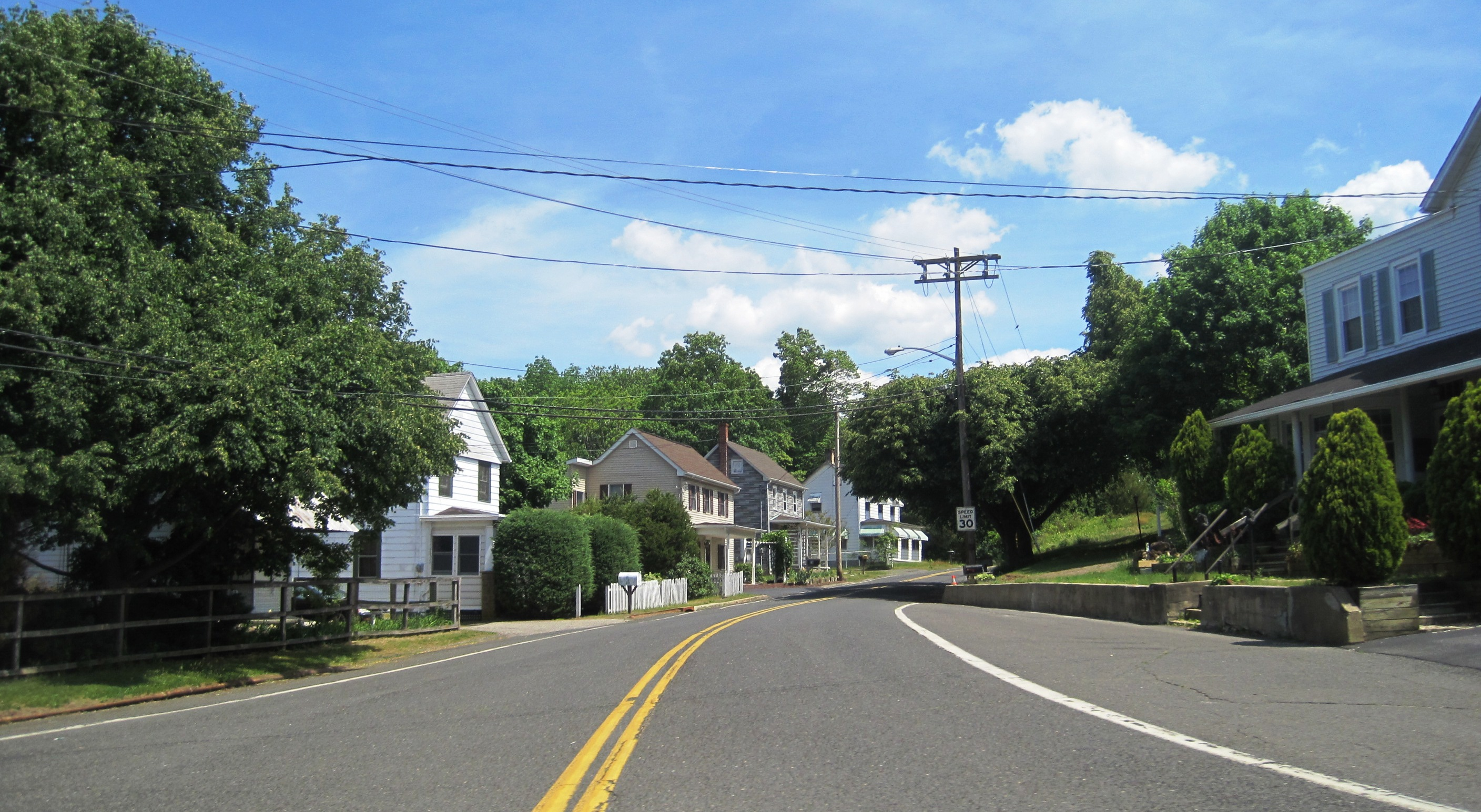 Photo of Hornerstown, New Jersey, an unincorporated commnunity within Upper Freehold Township. Photo taken at the intersection of County Route 27 at County Route 27.